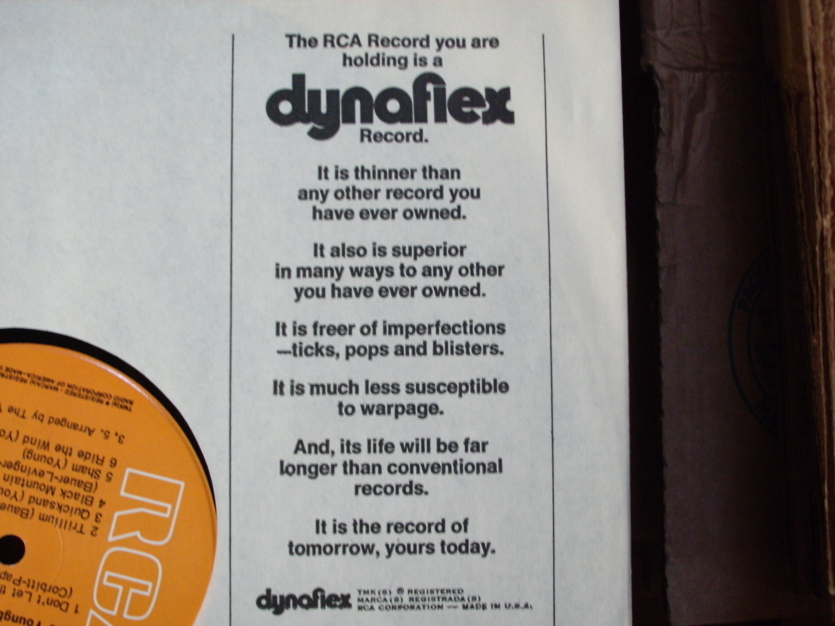 Picture of Dynaflex record, innersleeve.